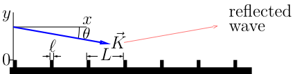 This image shows notations used in the article ridged_mirror.Similar pictures are used in [1][2].